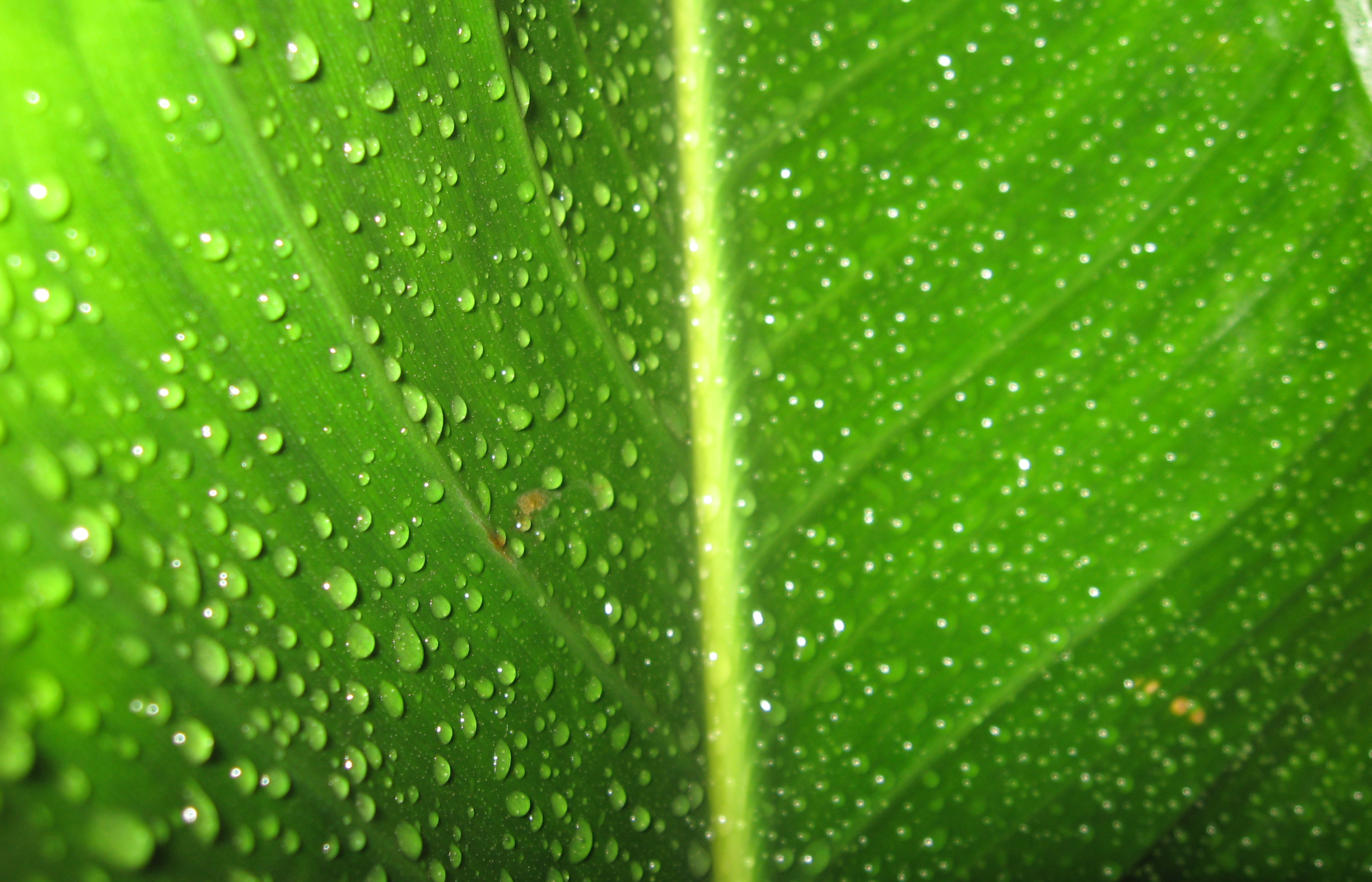 Macro of Wet Leaf